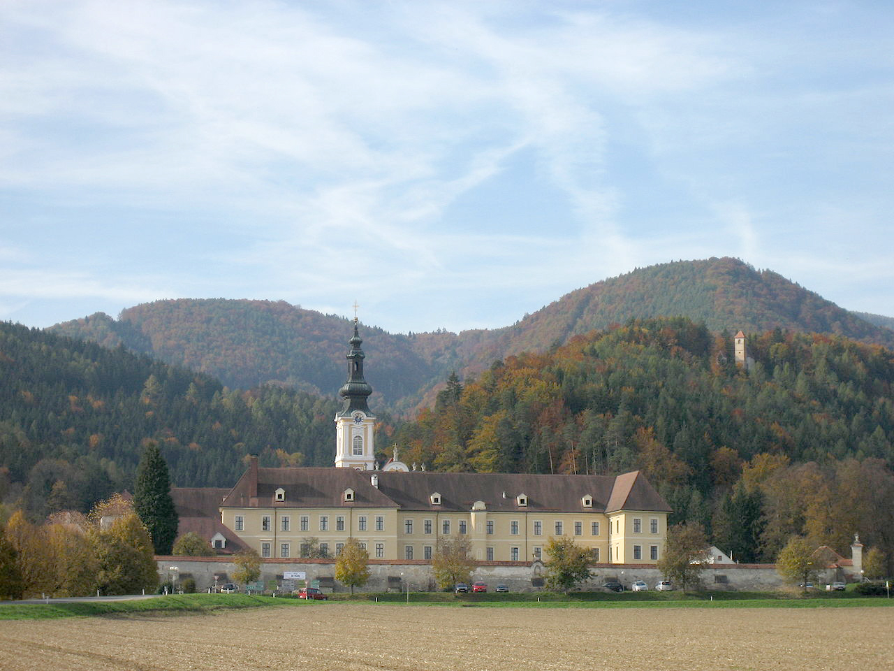 Stift Rein Ansicht von Osten